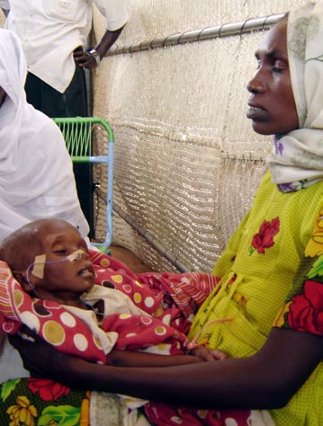 Original caption states, "This mother had just arrived at Abu Shouk with her sick baby. Under the best of circumstances, some predict that as many as 300,000 will die." Abu Shouk camp is located in North Darfur.